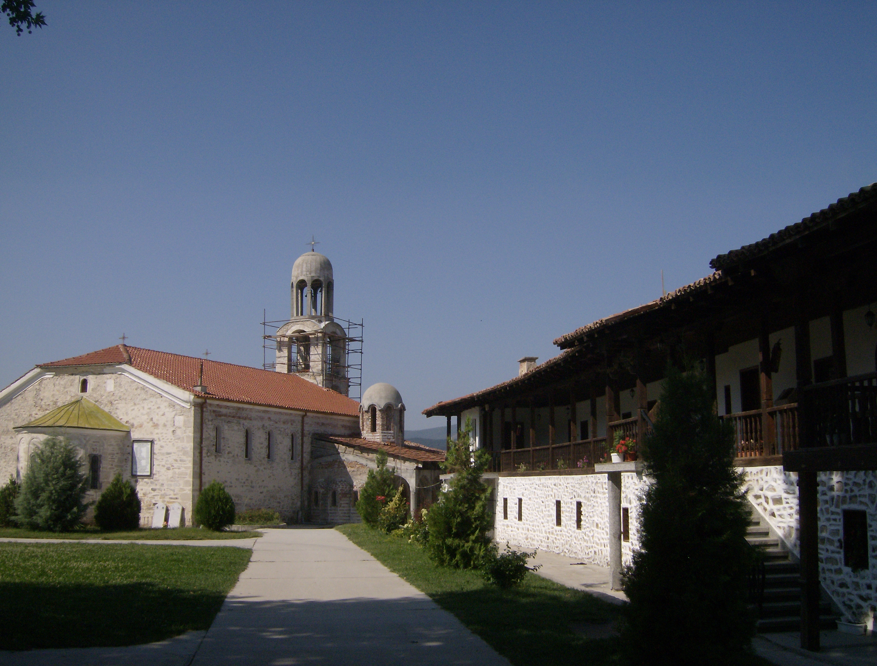 Hadjidimovo Monastery